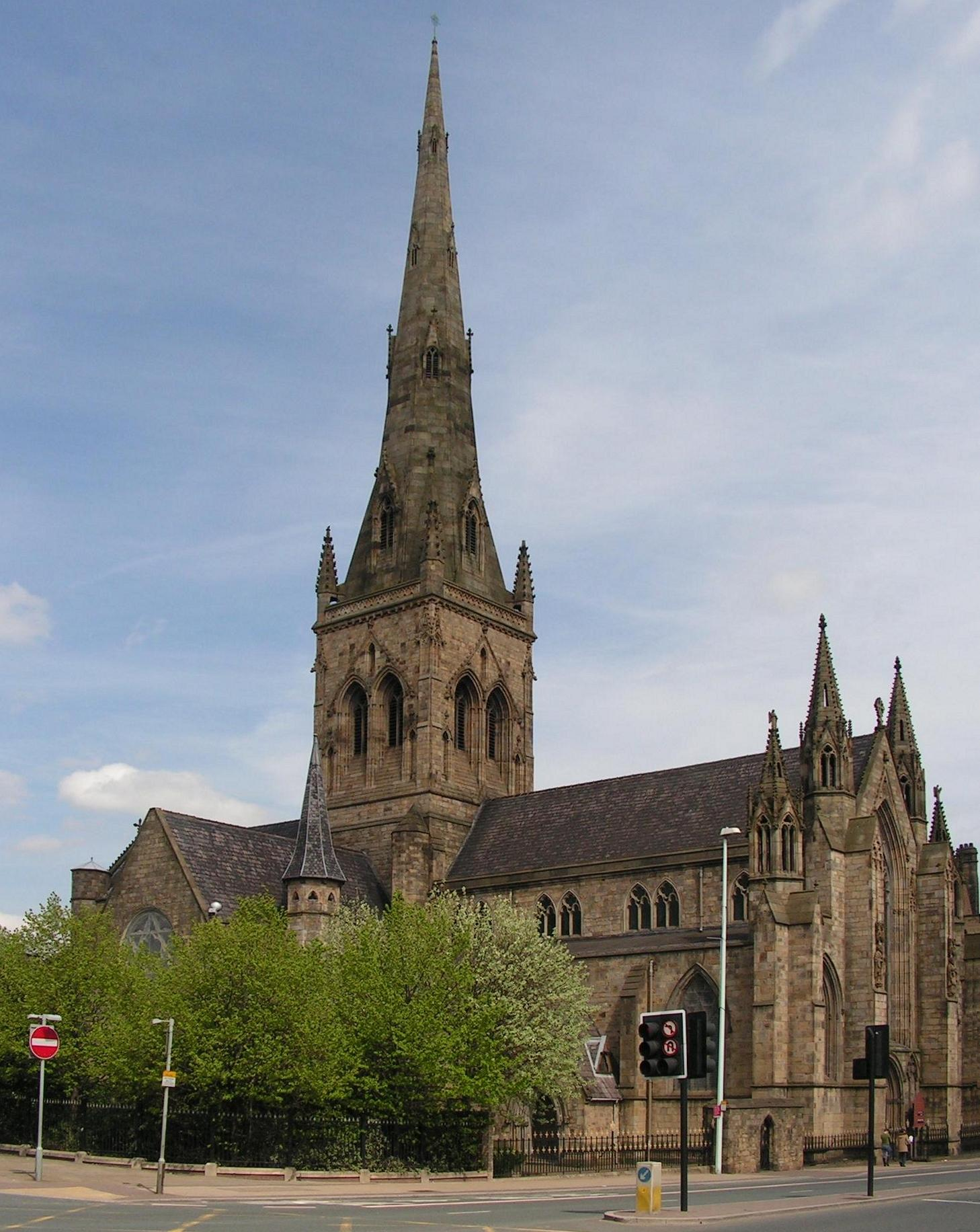 The Cathedral Church of St John The Evangelist, Chapel Street, Salford, Greater Manchester, England.